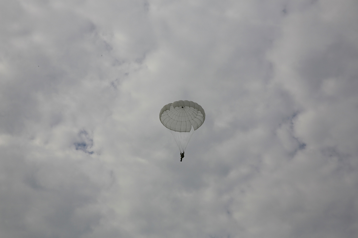 Jumping of the 22nd Separate Guards Special Purpose Brigade with parachute "D-6".